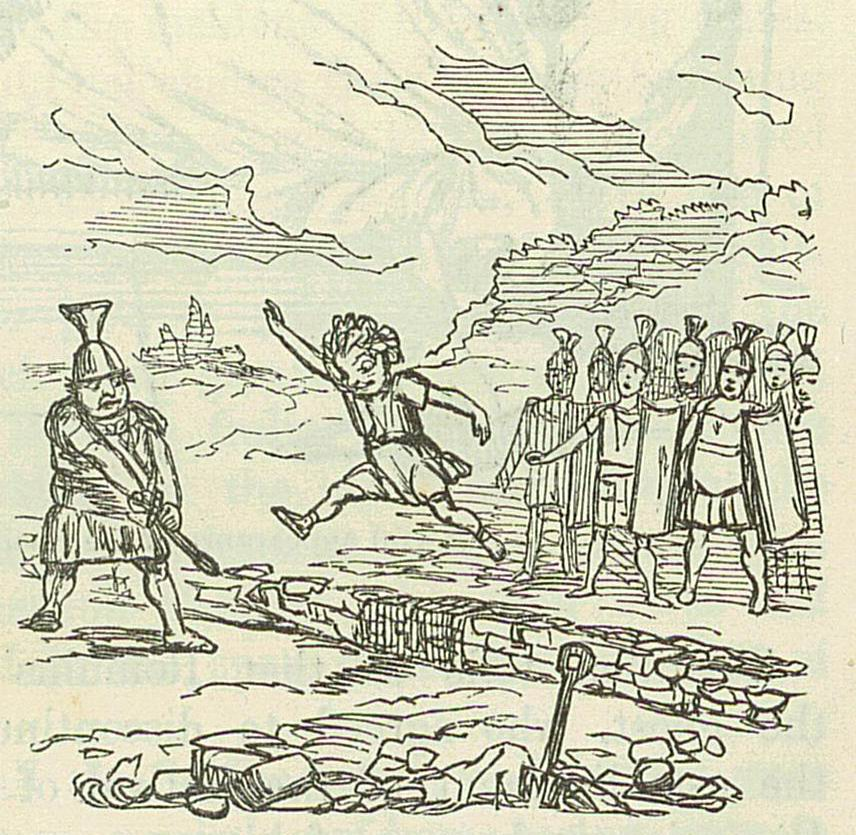 Image by John Leech, from: The Comic History of Rome by Gilbert Abbott A Beckett. Bradbury, Evans & Co, London, 1850s Remus jumping over the Walls